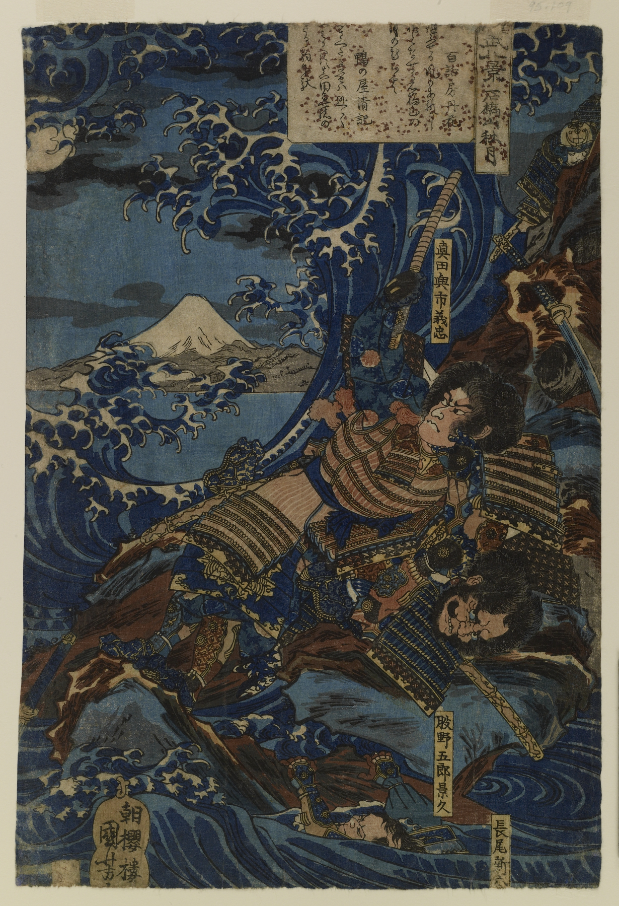 Heike and Genji forces clash on the rocky shore at Ishibashiyama within sight of a moonlit Mt. Fuji. The Genji warrior Sanada Yoshitada (top) seems to have the upper hand, but Matano Kagehisa will soon be aided by others, who will help secure victory for the Heike side.